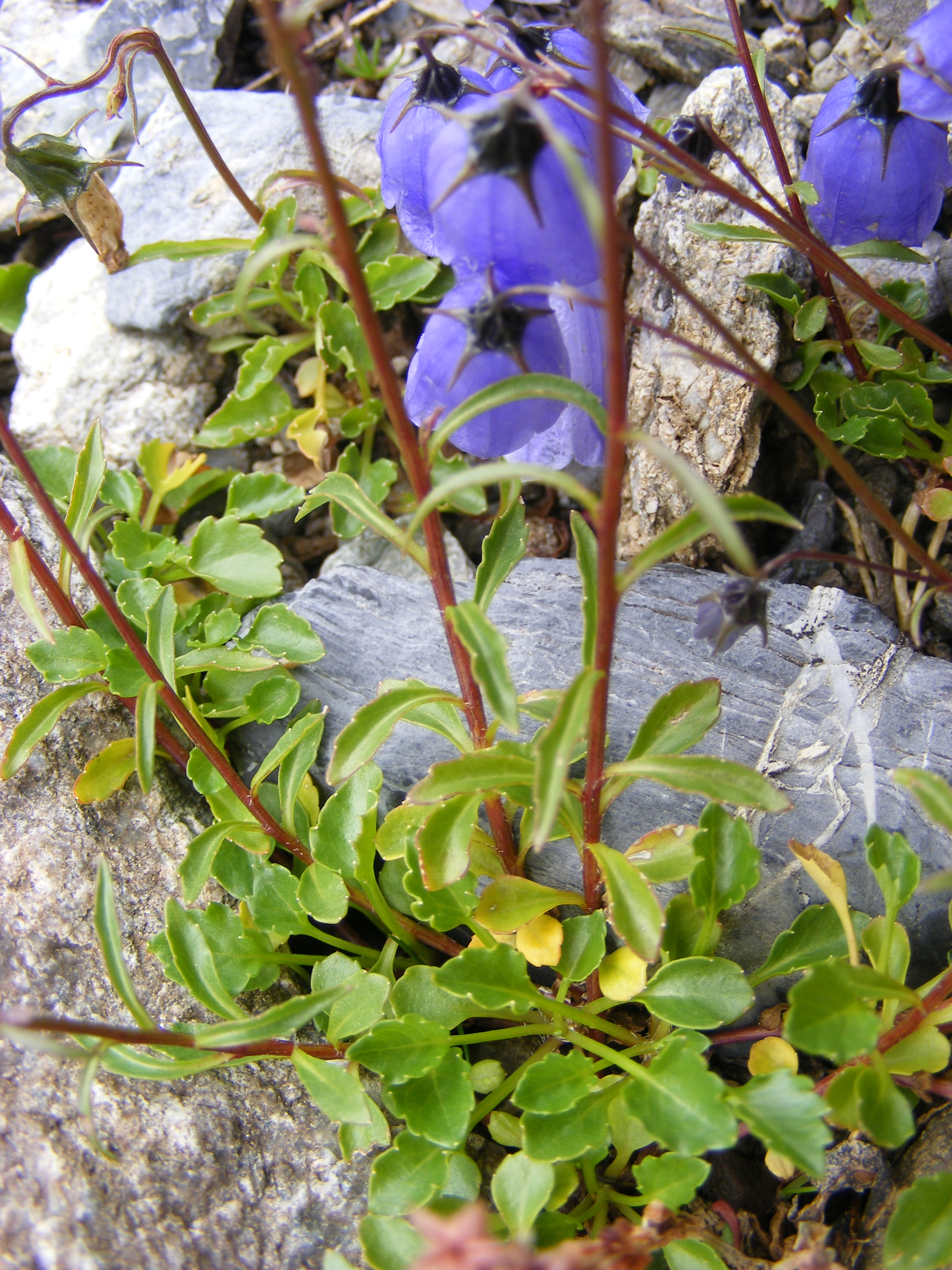 This photo shows Campanula cochleariifolia plant